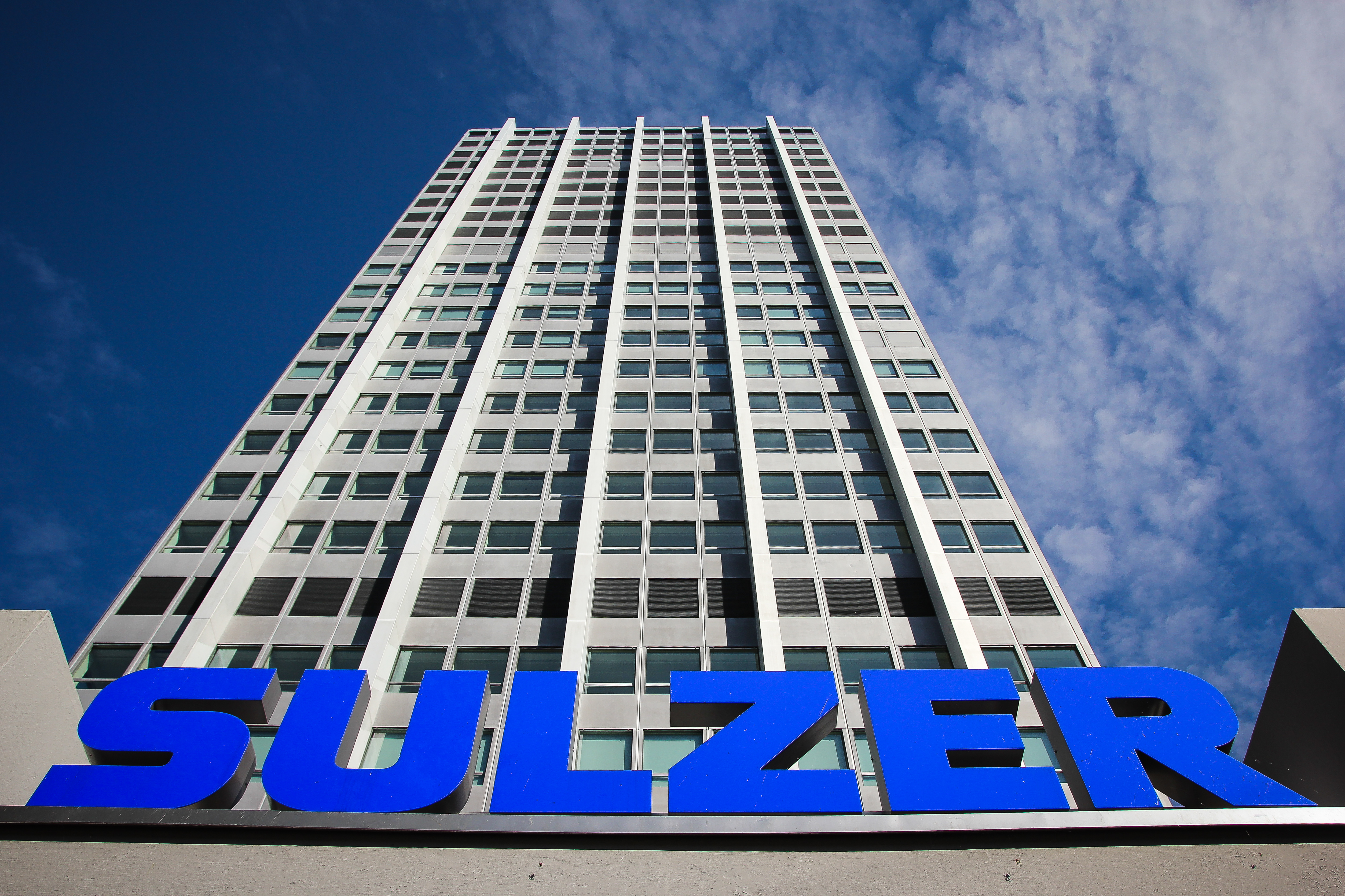 Sulzer Headquarter in Winterthur, Switzerland